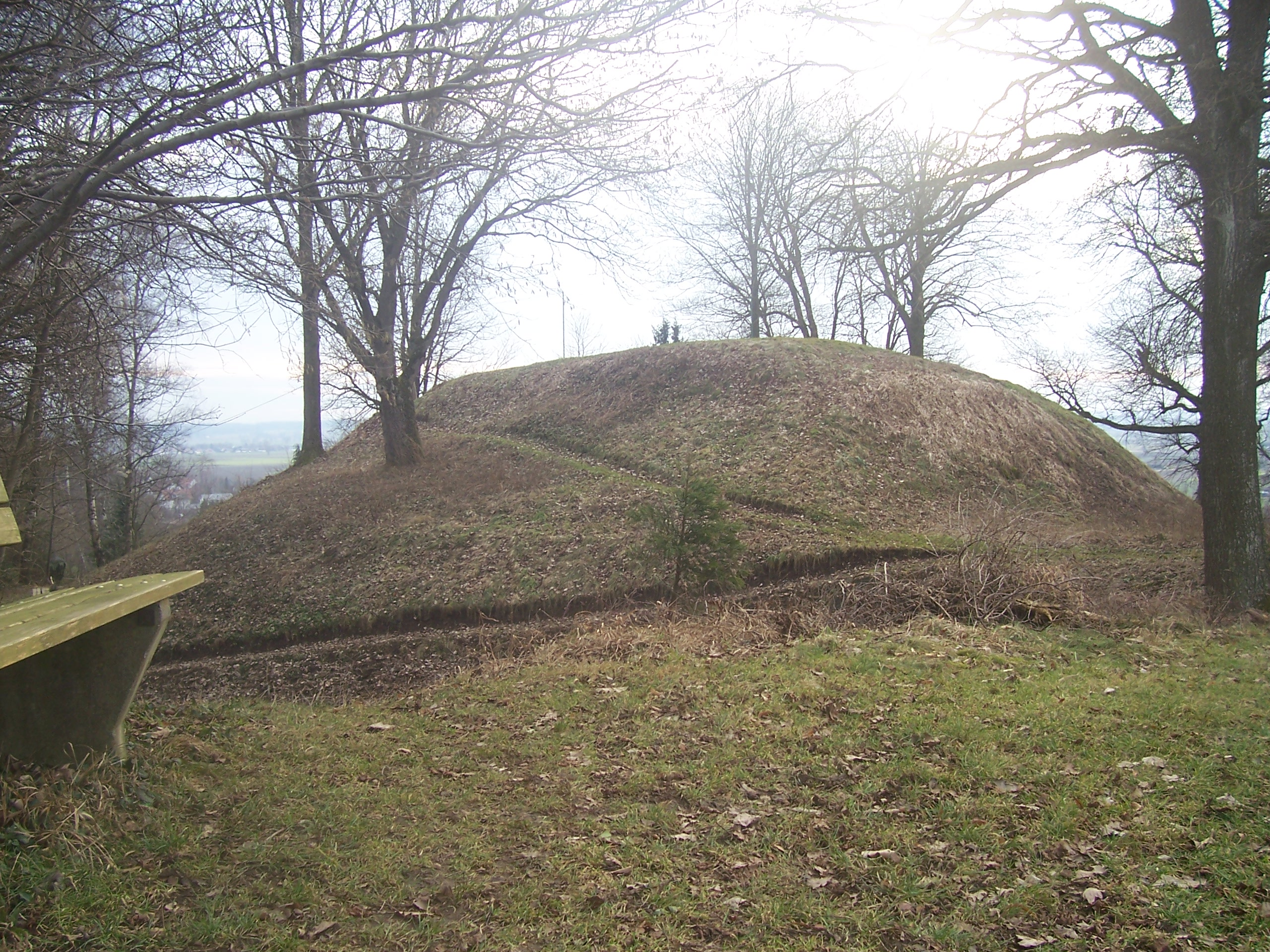 Burgstall in Buch